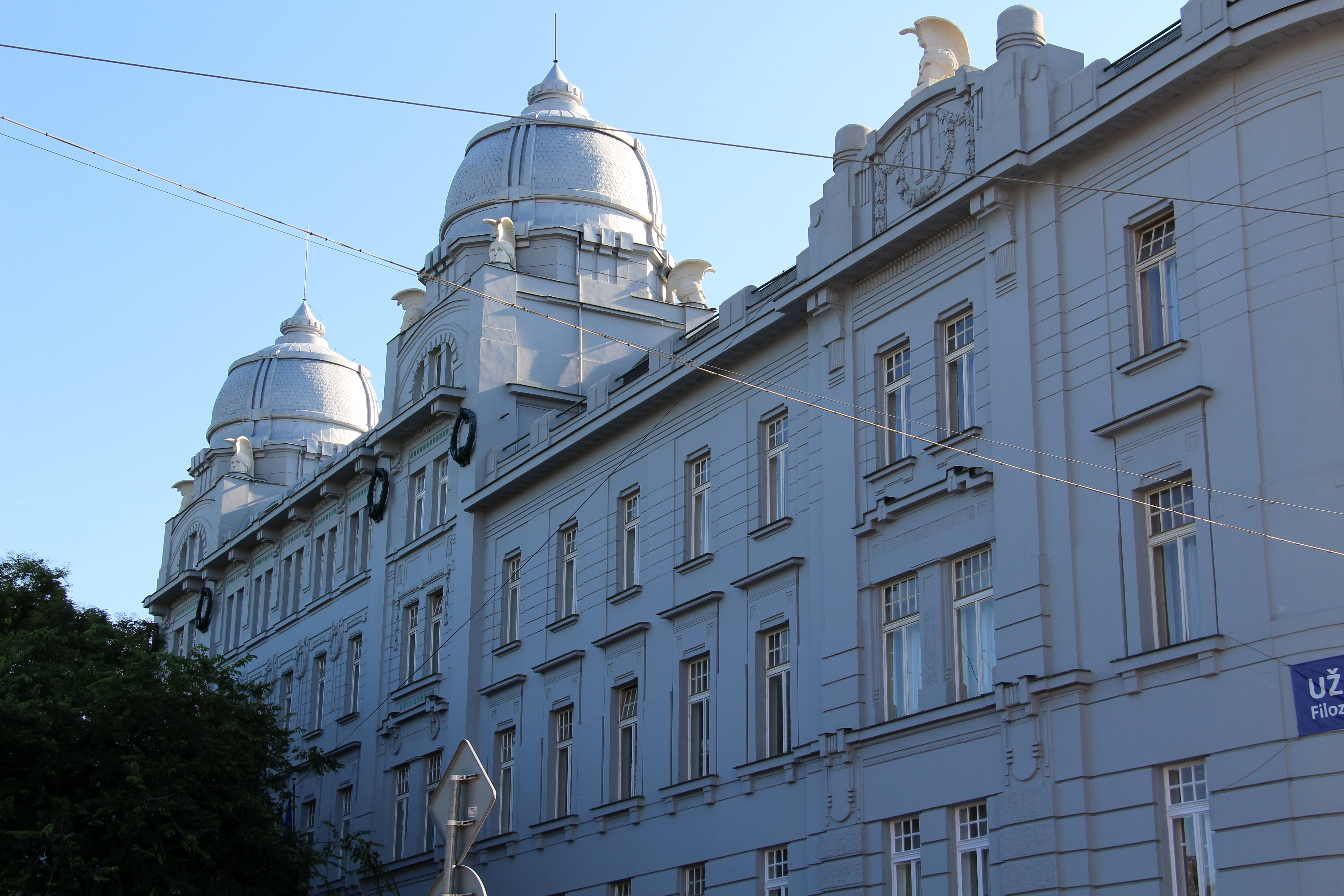 Staré Mesto. Vajanského nábrežie Faculty of Philosophy of Comenius University